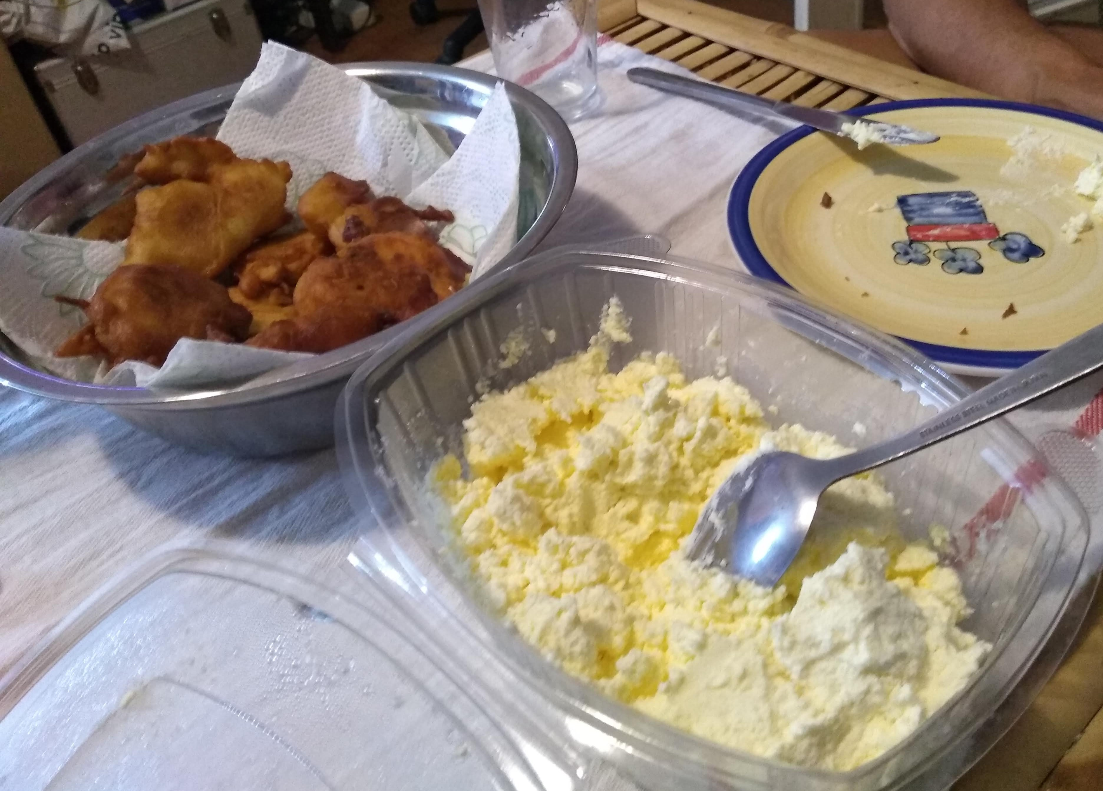 Kaymak and priganice (kind of doughnuts), traditional meal in Montenegro